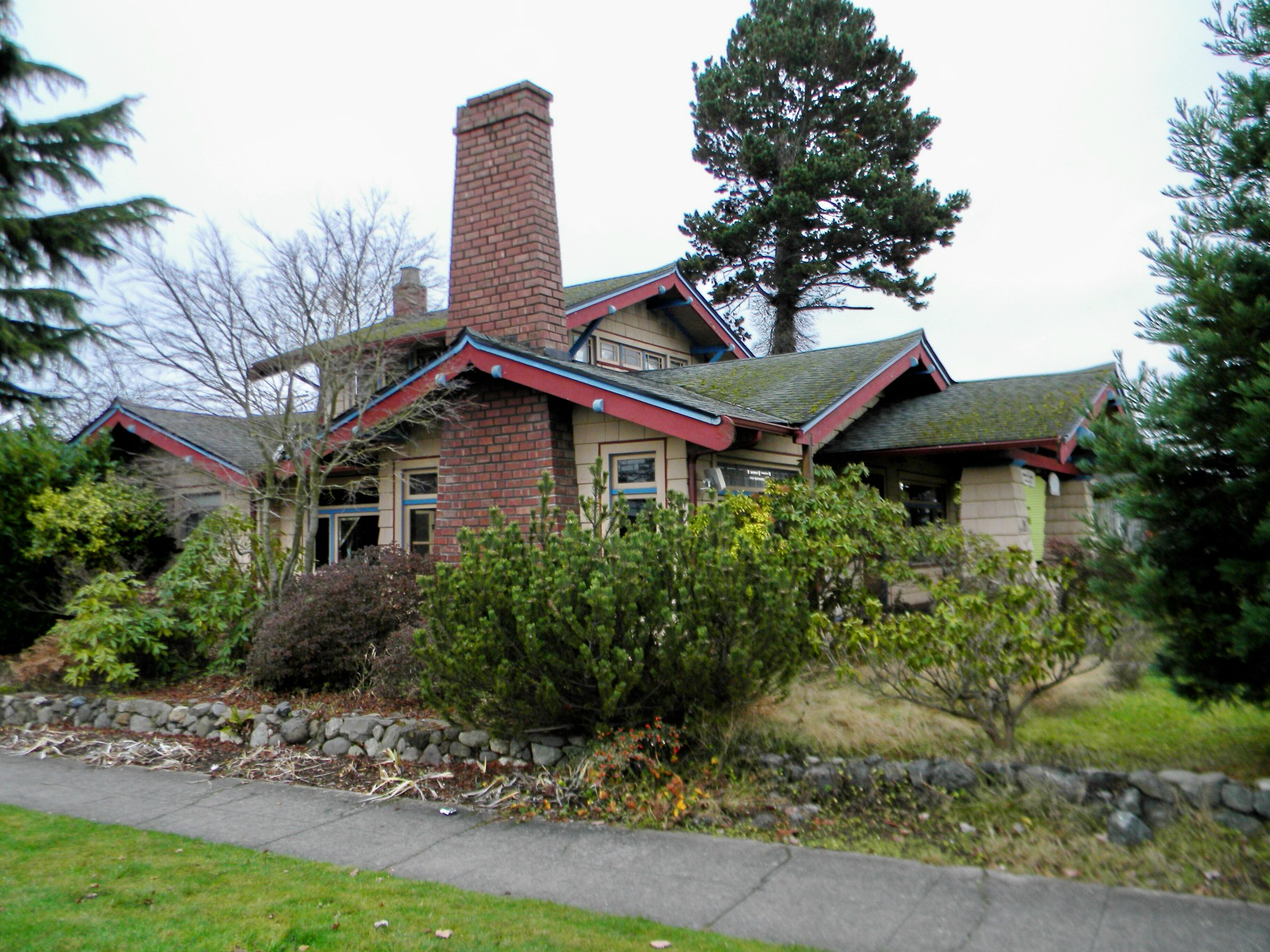 Joseph Paris House Site is currently used for professional offices.